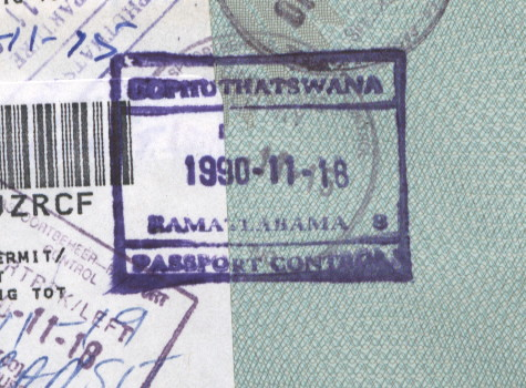 Customs stamp of Bophuthatswana at Ramatlamabama Border Post (to Botswana)(scan of passport, date of stamp: 1990)